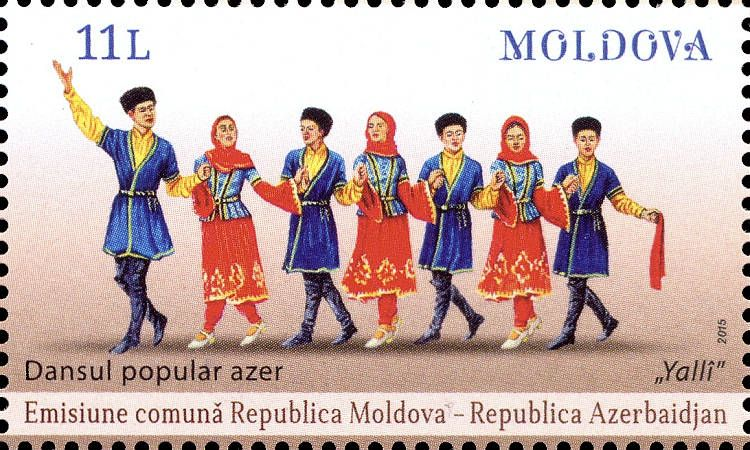 Traditional Dance of Azerbaijan Yalli 2015